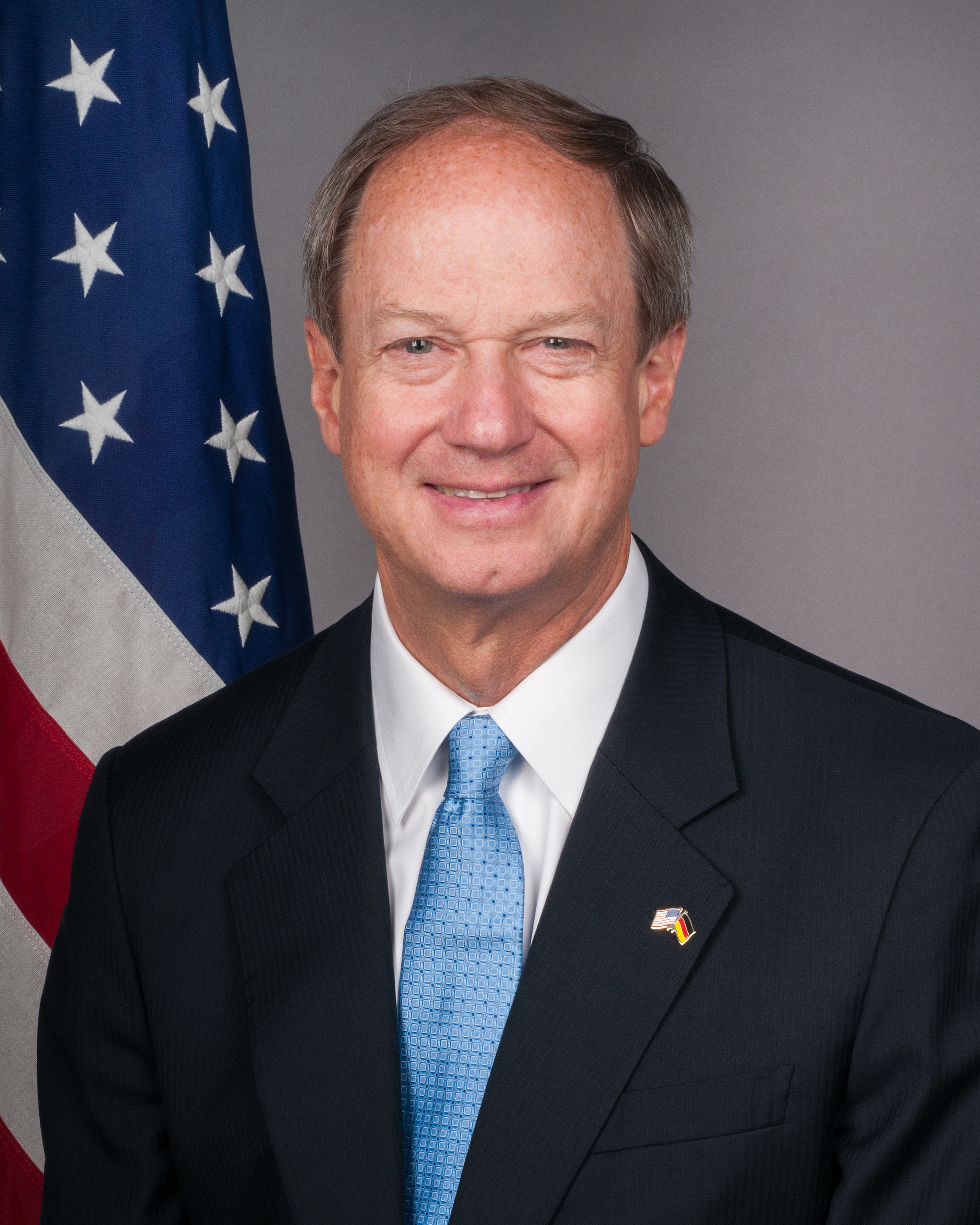 Official portrait of U.S. ambassador to Germany